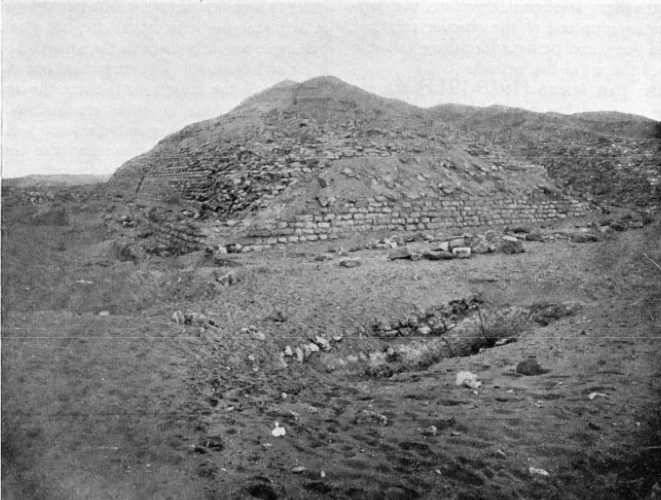 Layer Pyramid of Zawiet el-Aryan, as seen from the North East just prior to the 1910-1911 excavations of Reisner and Fisher.